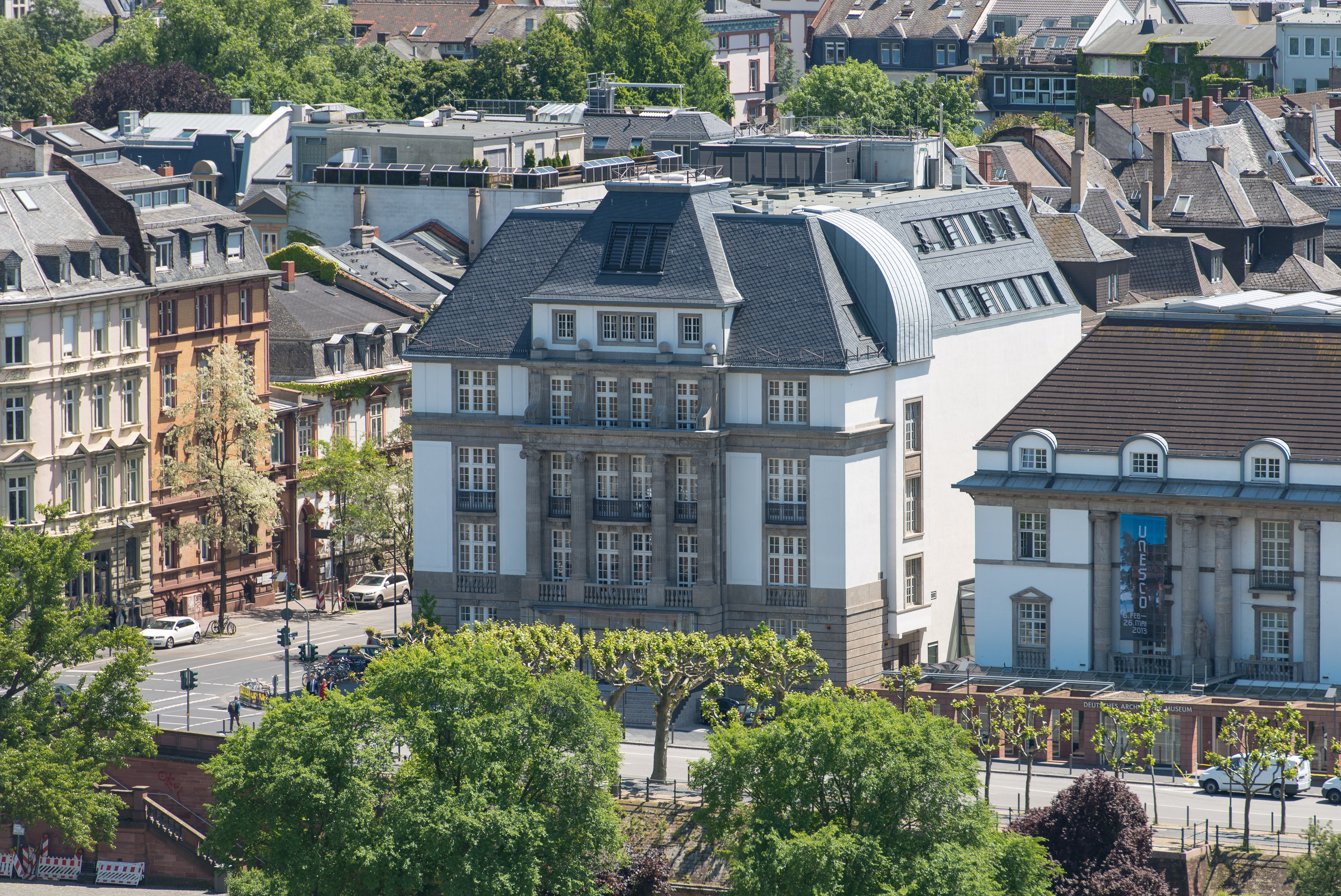 Frankfurt am Main, German Film Museum (as seen from elevated North-West).